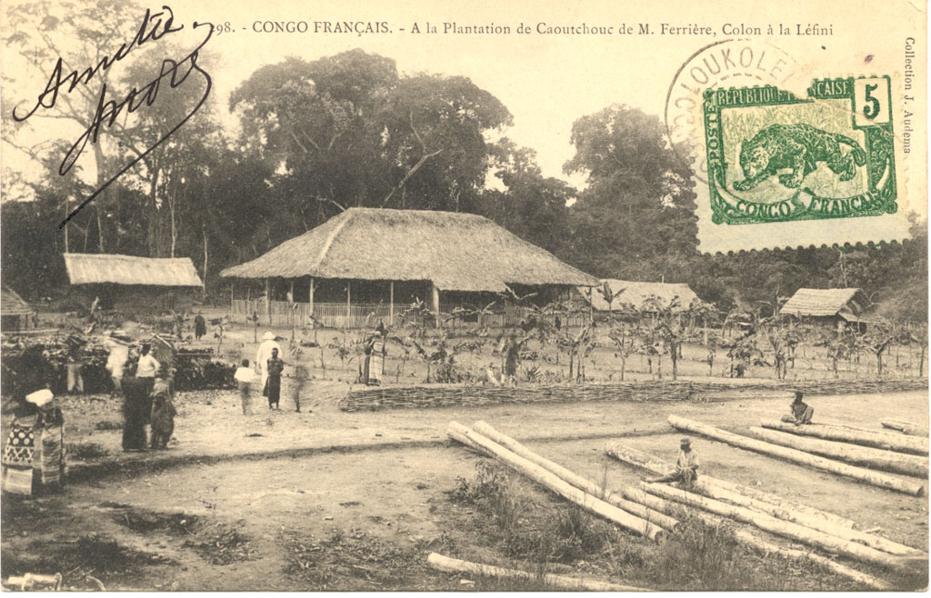 Congo Français [postcard] : Congo Français - A la plantation de Caoutchouc de M. Ferrière. Colon à la Léfini Summary: Translated caption reads: French Congo. Mr. Ferrière's Rubber Plantation, settler on the Léfini. In the foreground, rubber trunks and workers in the background. Recto upper right side reads: [LOUKOLE]. Recto upper left side reads: [Amitiés. Signature]. Translated recto upper left side: Friendship. Signature not readable. Verso address reads: M. Klemken - Vésoul - France. Congo Français. Photograph by J. Audema Contained in: Postcard Collection, 1898-[ongoing] Phy. Description: postcard : b&w ; 9 x 14 cm. Produced: [ca. 1905] Title source: Postcard caption. Image indexed by negative number. Subject-Topical: Agriculture Subject - Geographical: Congo (Brazzaville) Form / Genre: Postcards Repository Loc: Smithsonian Institution, National Museum of African Art, Eliot Elisofon Photographic Archives, 950 Independence Avenue, S.W., Washington, DC 20560-0708 Local Number: EEPA 1985-140054